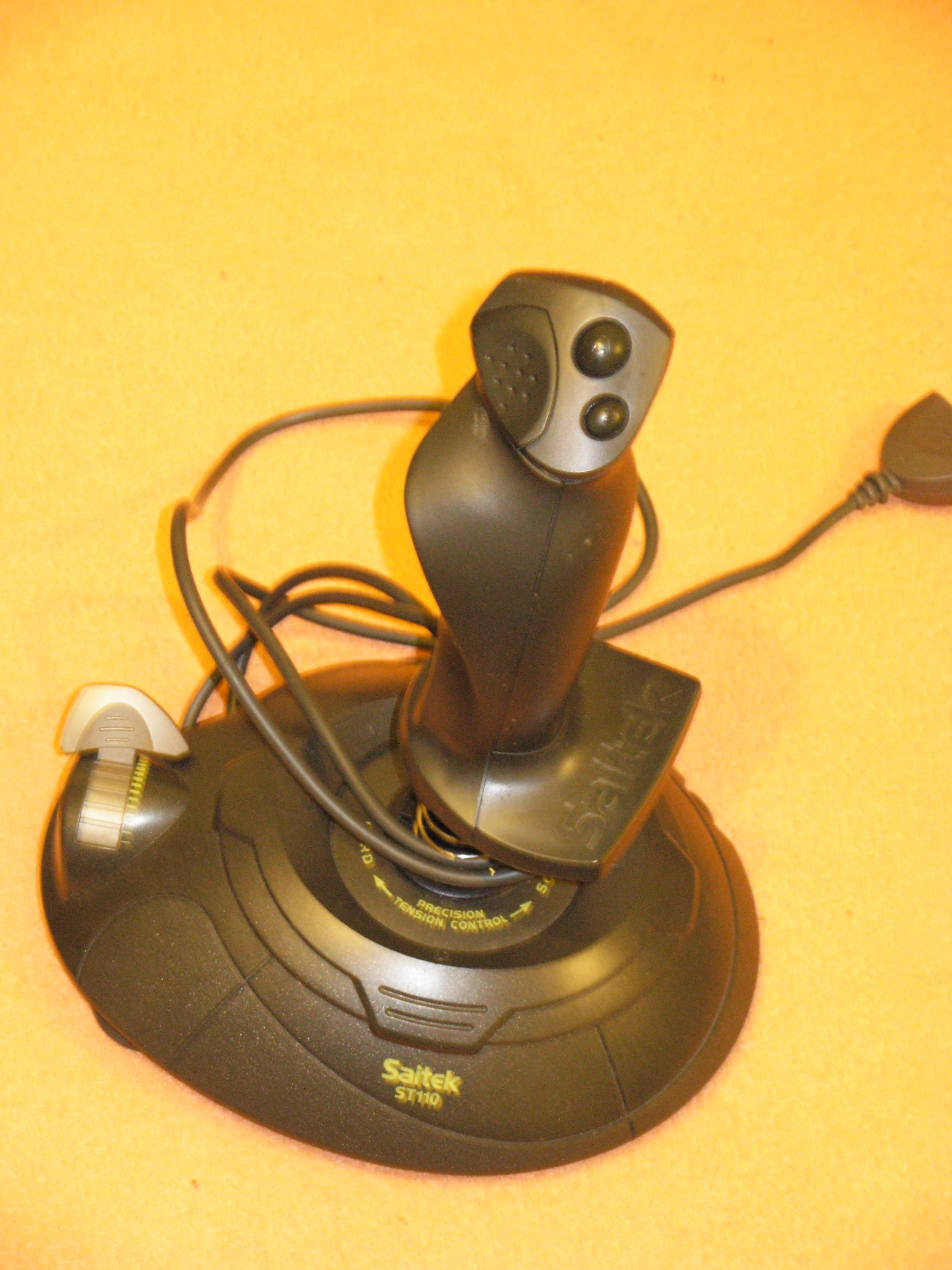 Joystick. Saitek ST110. Photo by Piotrus.